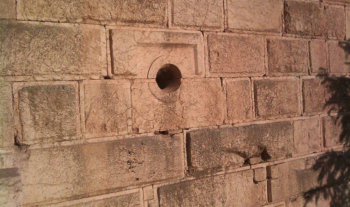 Exterior of Baalbek temple. Shaft of unknown function leading to the interior of what is now the museum. Taken and released into the public domain by Paul Bedson.